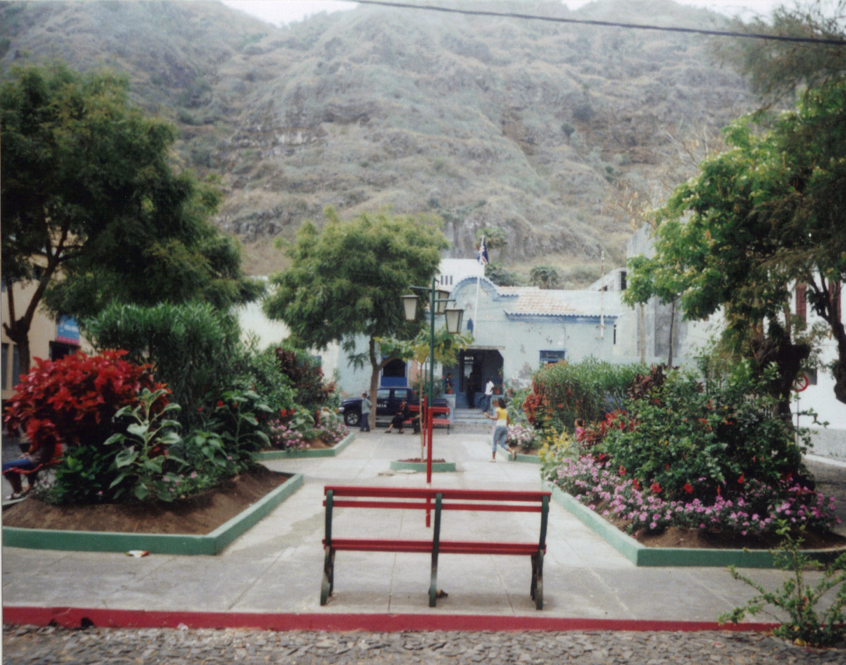 Main Square, Mosteiros town, Fogo island, Cape erde